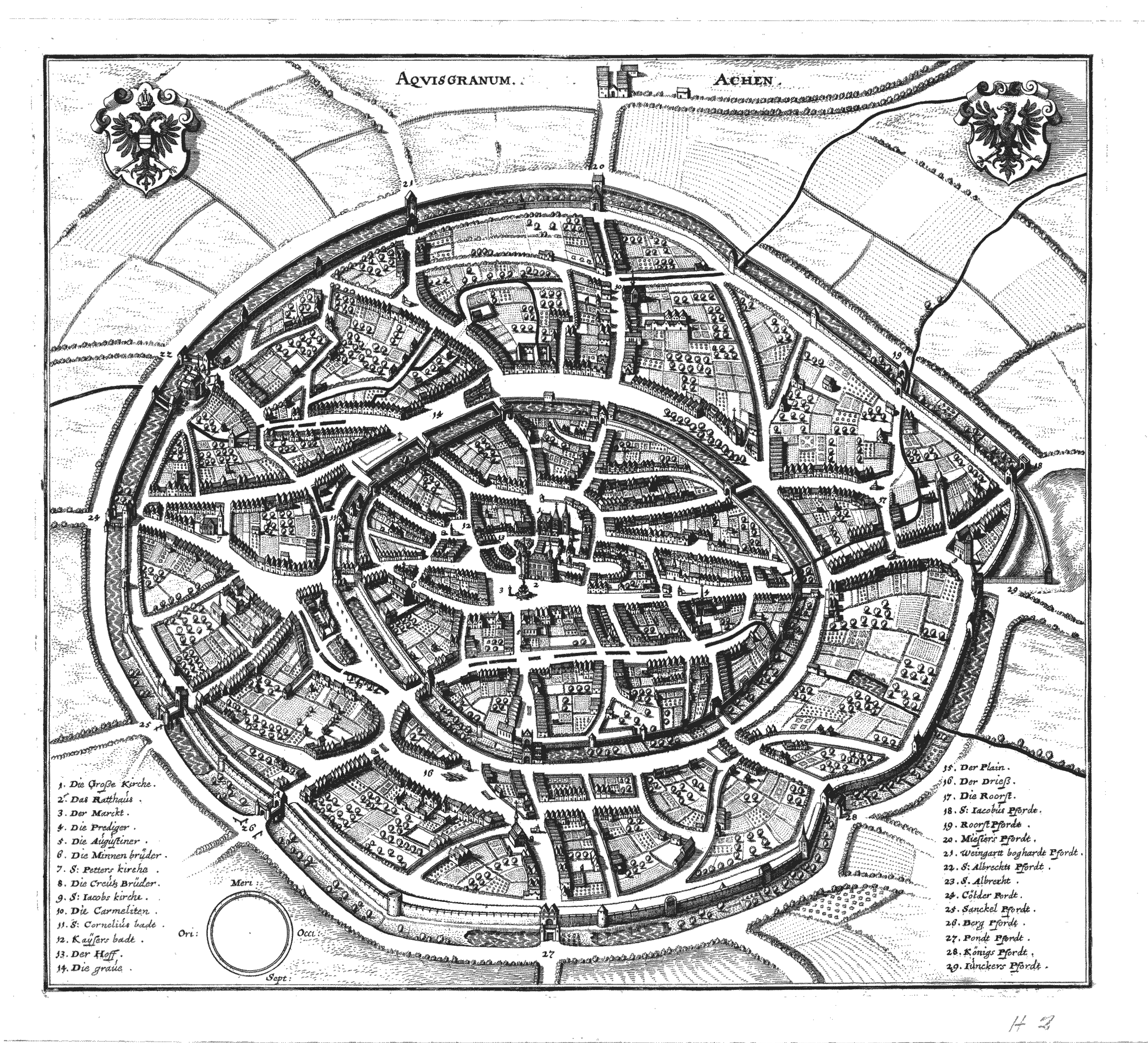 perspectivic map of the city of Aachen, seen from the north, made with Henrick van Steenwijk's map as a model